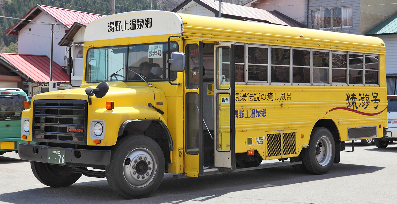 International S-1700 Schoolmaster of Hirota Taxi Aizuwakamatsu, Fukushima, it runs by Biodiesel fuel.